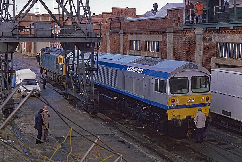 59001 Yeoman Endeavour at Southampton Docks, having been unloaded from the MV Fairlift. Shunted by 33018. Scanned from a Kodachrome 35mm slide.